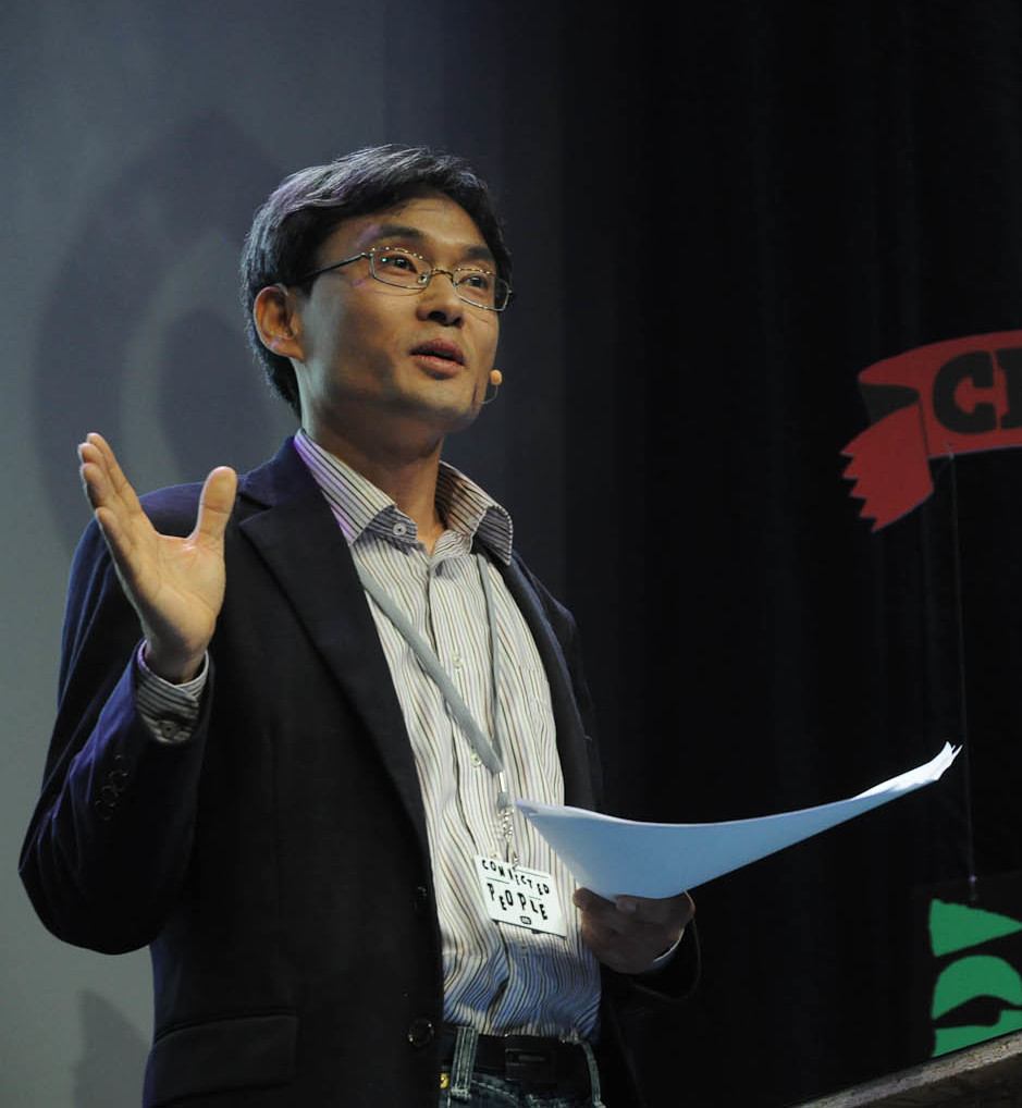 by Ivo Näpflin